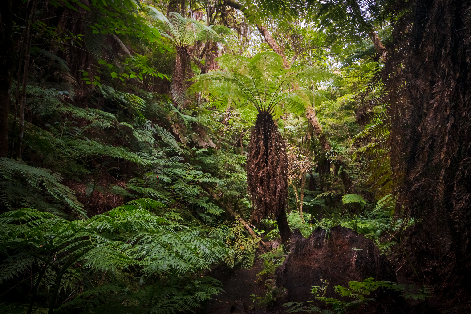 Giant fern forest at Amboró National Park